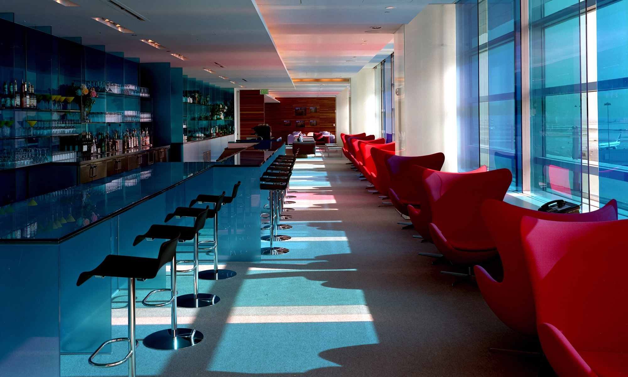 Virgin Atlantic Airways Clubhouse, San Francisco International Airport. Designed by Eight Inc. Photographed by Timothy Hursley.